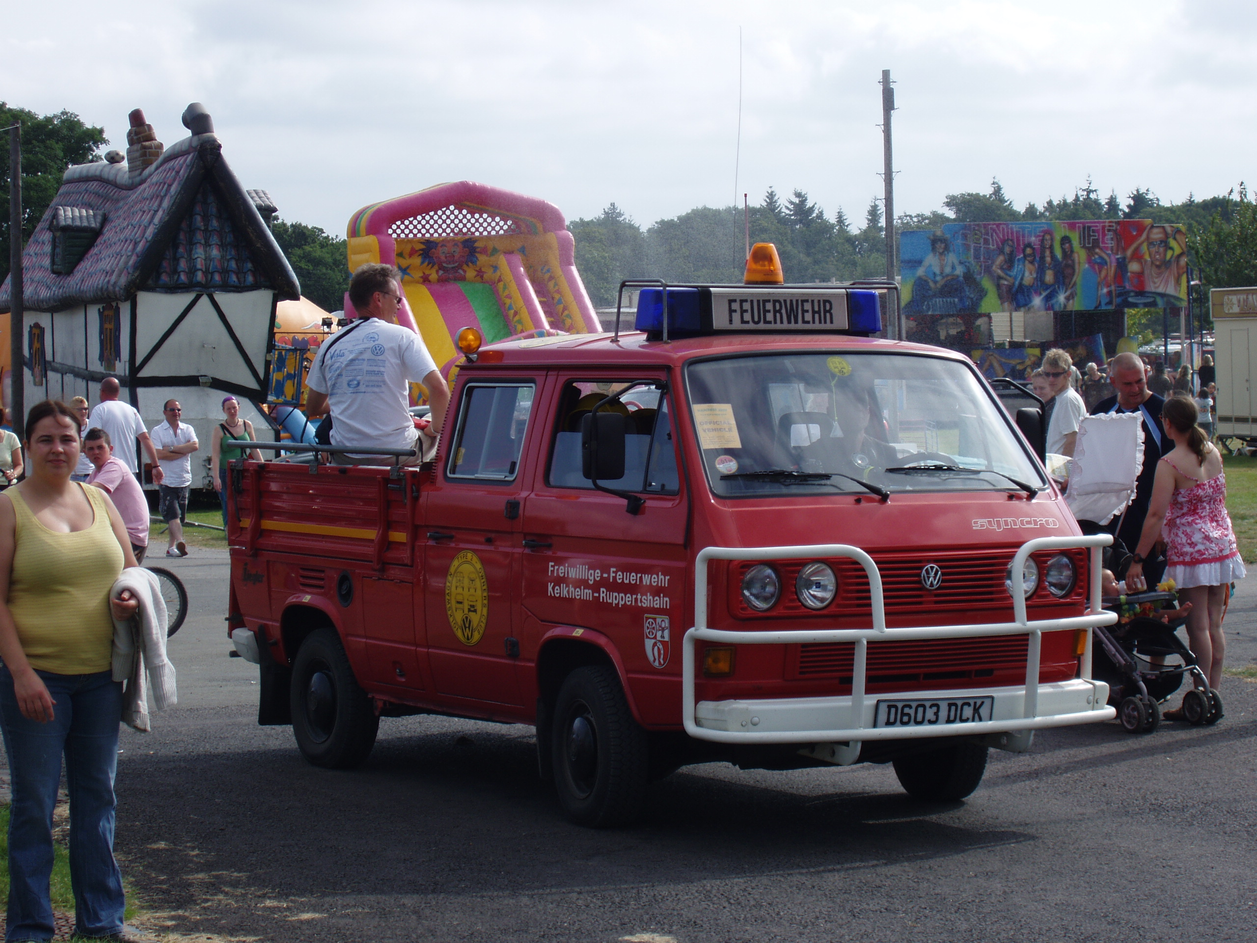 The Vanfest fire engine, VW type IV, DC